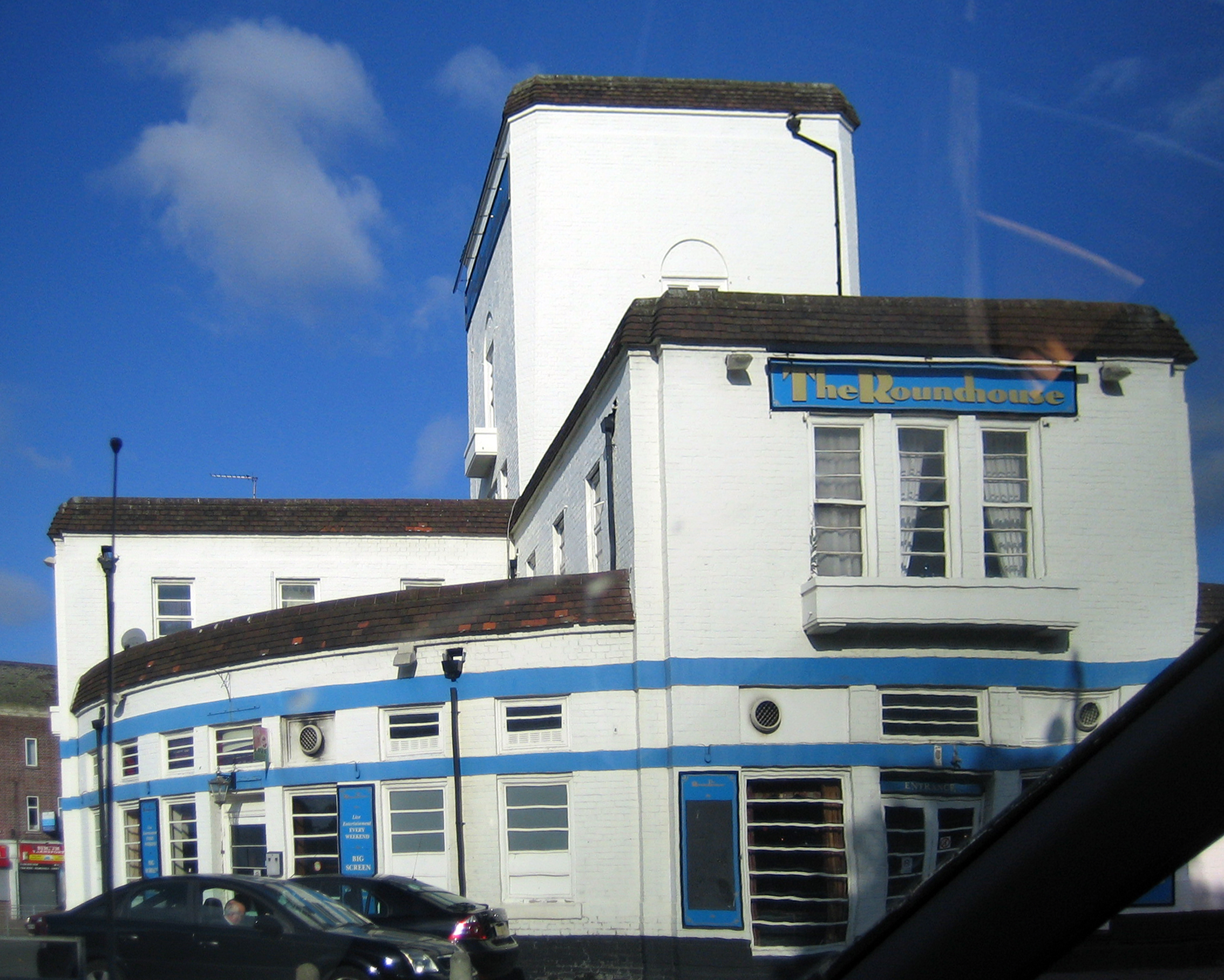 An image of the Dagenham Roundhouse.